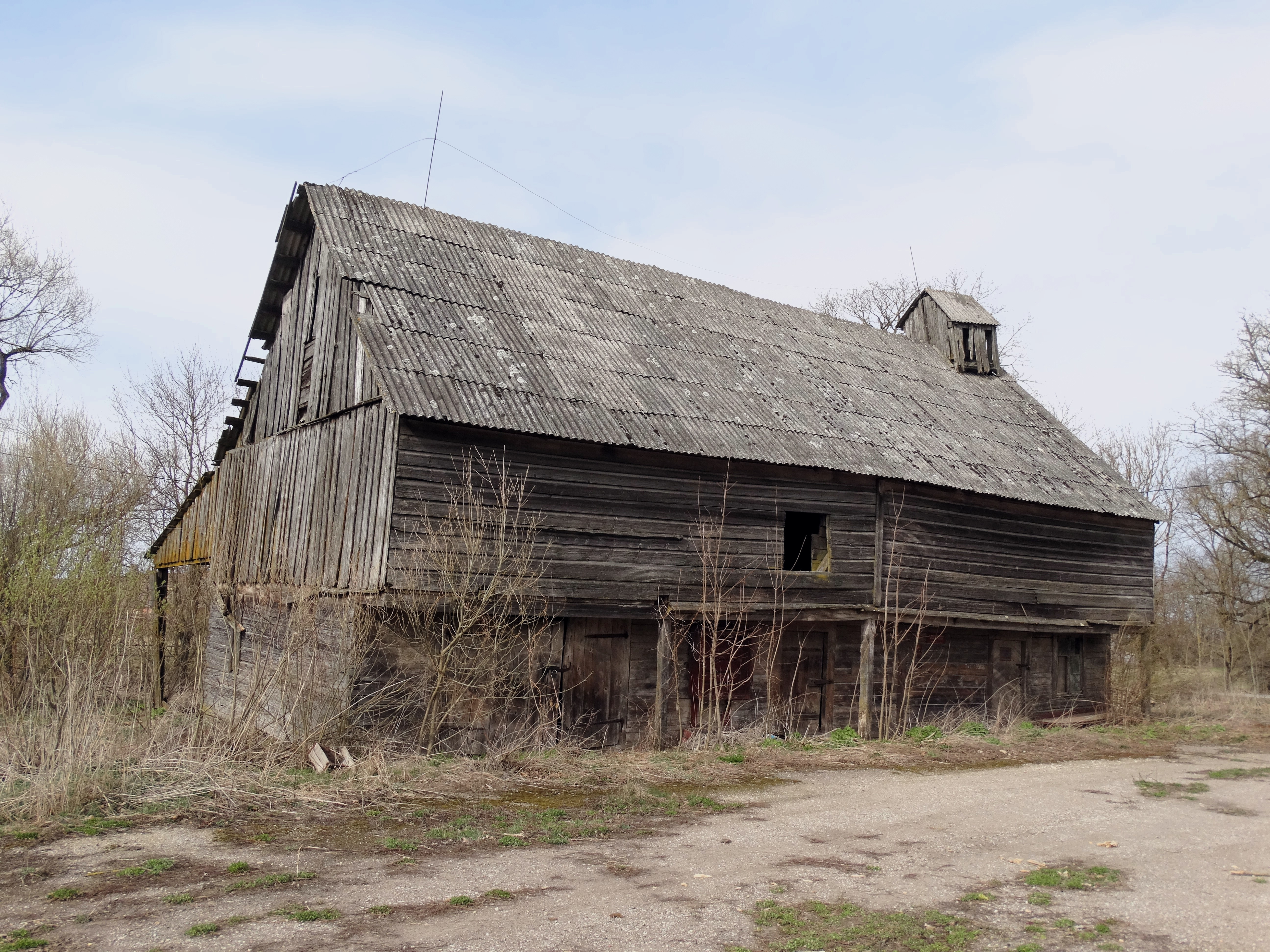 Former manor buildings, Pašušvys, Radviliškis District, Lithuania